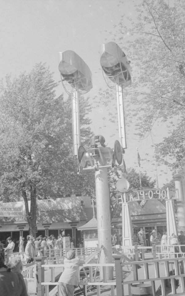 We see a recreational equipment called the "Loop-O-Plane" at Belmont Park in Cartierville.